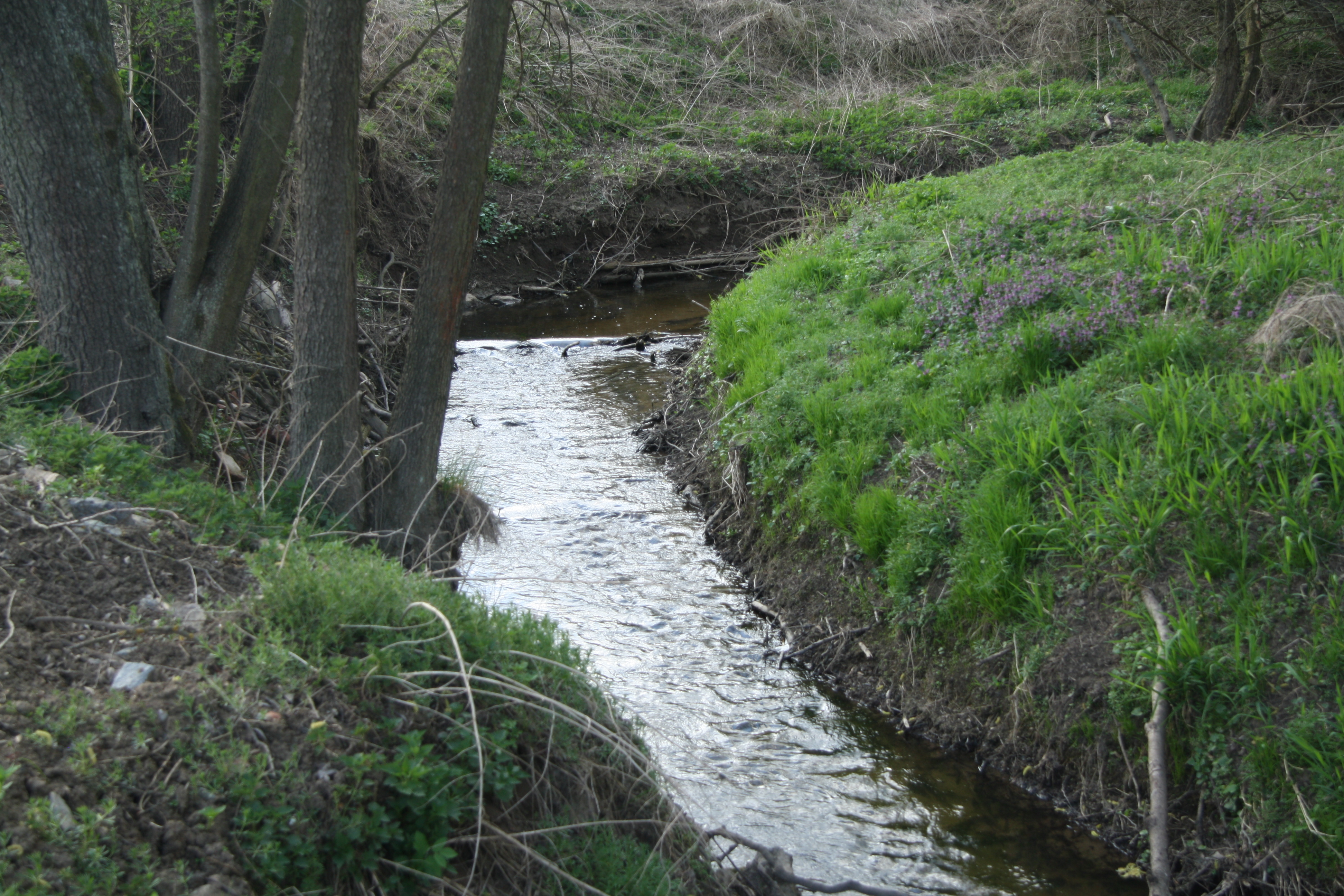 Klapovský stream near Ptáčov, Třebíč District.